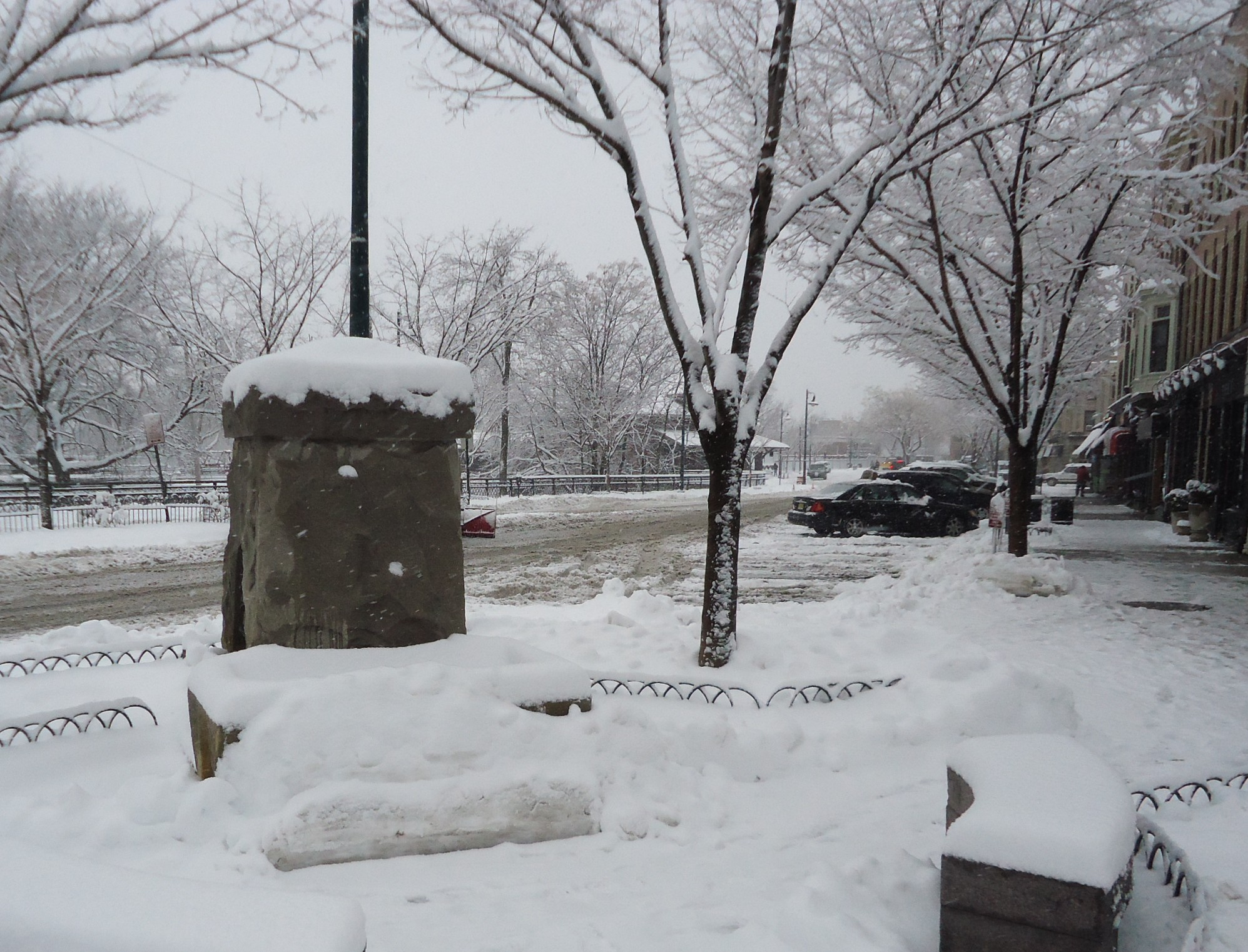 Winter scene at the corner of Summit Avenue and Railroad Avenues, in downtown Summit, New Jersey, after a snowfall. The horse trough (center left) is covered with snow.